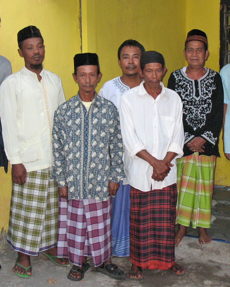 Javanese men often use Sarong in religious or caasul occasion. He is photo of sarong used in Surabaya, East Java.